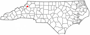 Category:North Carolina Dot Maps